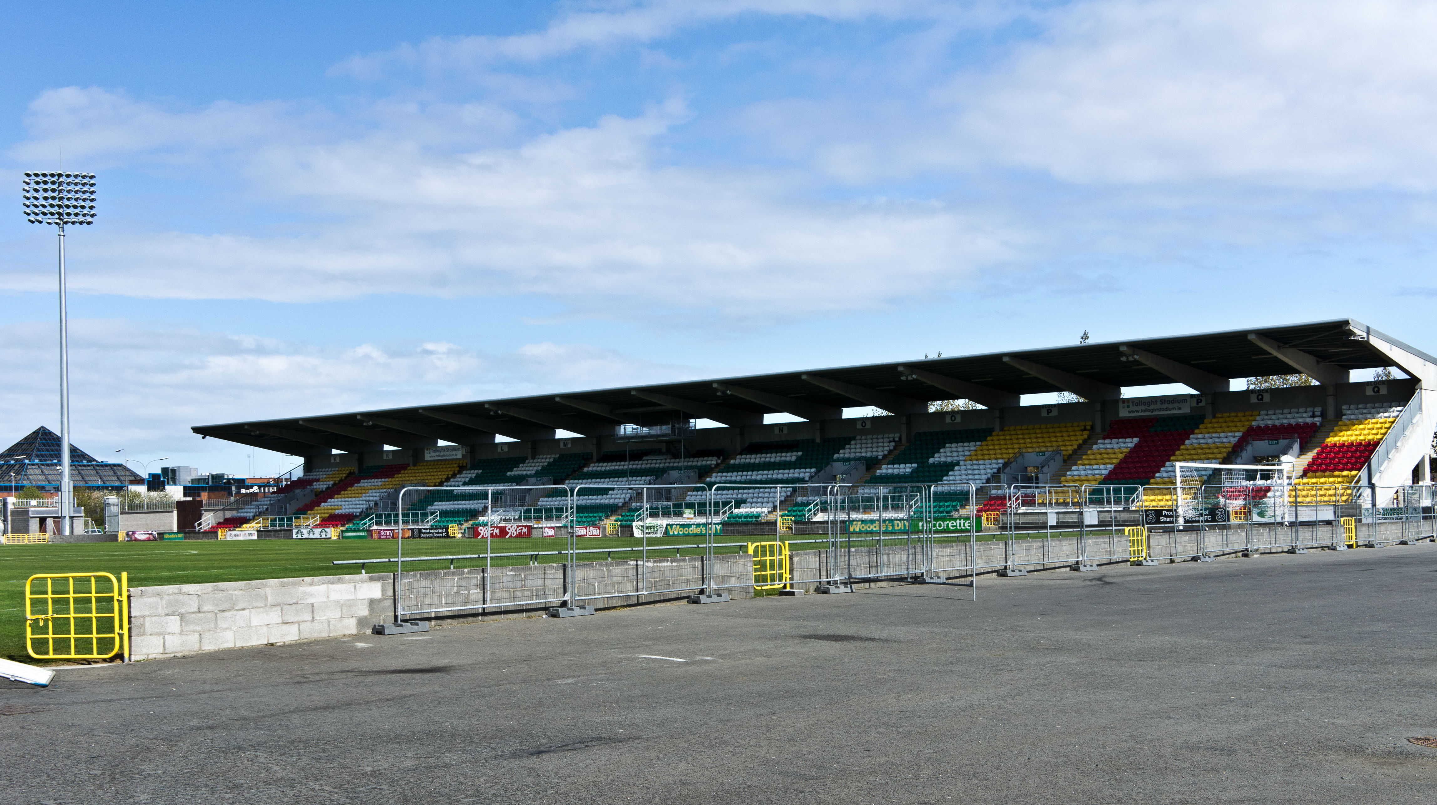 Tallaght Stadium is a football stadium in the Southside suburb of Tallaght. Shamrock Rovers originally announced details of the stadium back in July 1996. The stadium is owned and operated by South Dublin County Council with Shamrock Rovers as the anchor tenants. The main stand seats 3,048 and holds home supporters, away supporters, club officials and press. A second stand seating 2,899 on the opposite (east) side of the ground, was completed in August 2009. This stand holds the stadium's TV gantry and has brought the seating capacity to 5,947. Both stands are covered. There are no stands currently in place behind the goals. Refreshment stalls are located at the southern end as is a stadium control room. Temporary seating has twice been constructed at the stadium. Once for a club friendly against Real Madrid which gave the ground a temporary capacity of 10,900 and again before the 2009 FAI Cup Final, giving the ground a temporary capacity of 8,800. Located behind the main stand is the Shamrock Rovers club shop jointly operated by Rovers and kit suppliers Umbro. Also onsite at the stadium is the 'Glenmalure Suite' open to club members on match days.